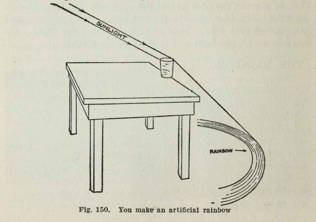 Figure from "Gilbert light experiments for boys" (1920), p. 98, Experiment No. 94